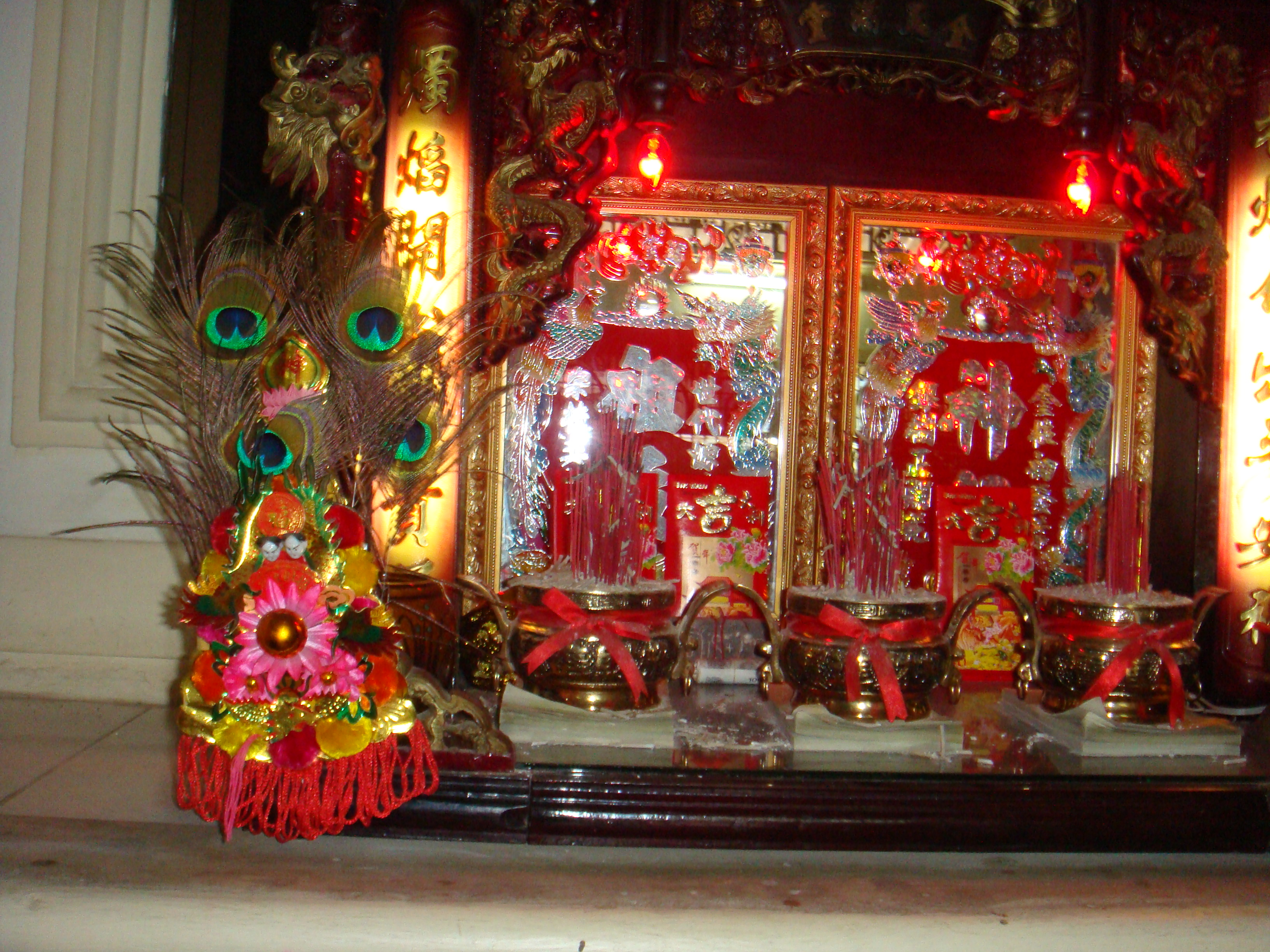 The Chinese Ancestor altar in my sino khmer house..